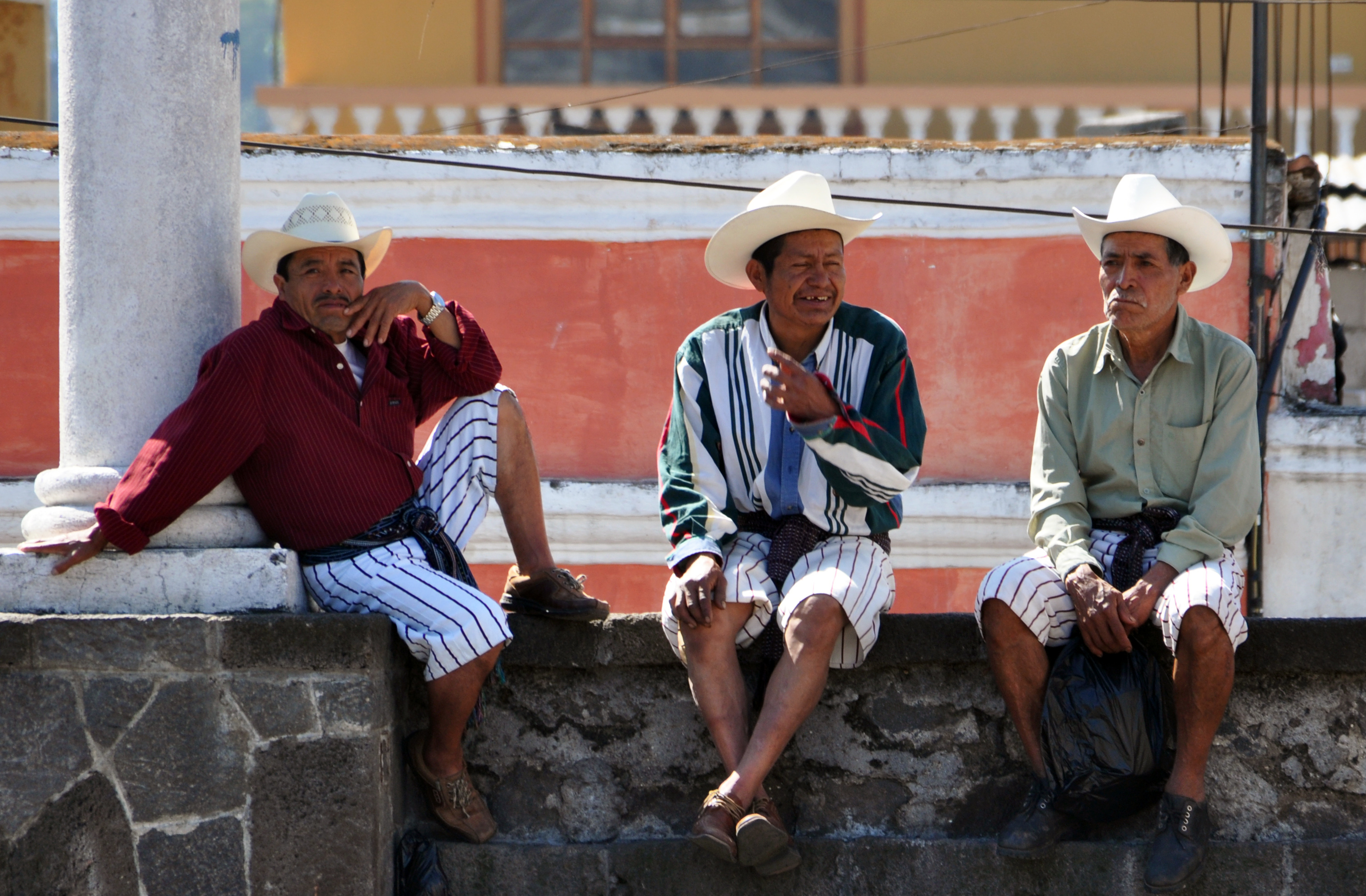 Tz'utujil men hanging around Santiago de Atitlan, 2009